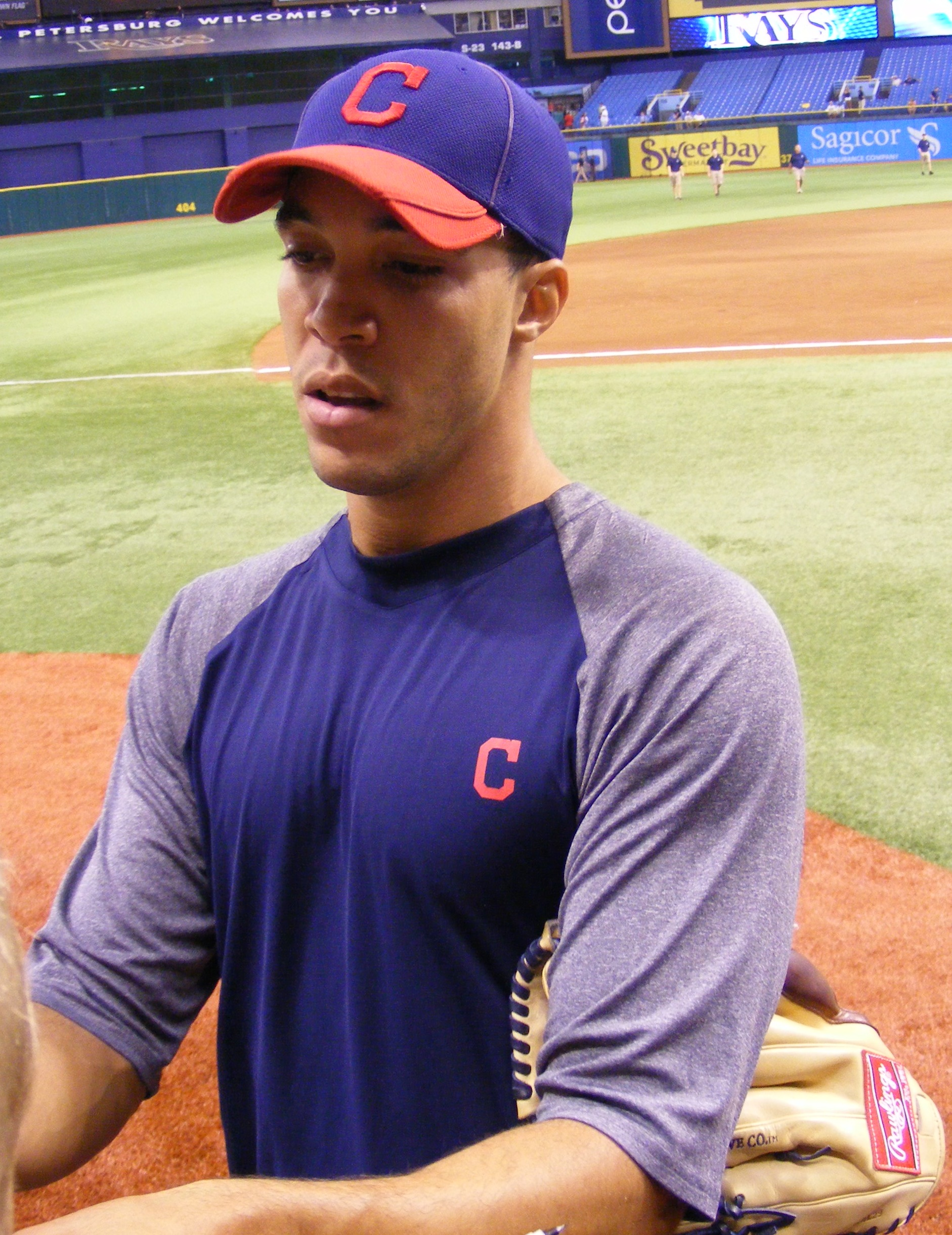 Ubaldo Jiménez signs autographs for fans prior to a game against the Tampa Bay Rays at Tropicana Field on July 17, 2012.